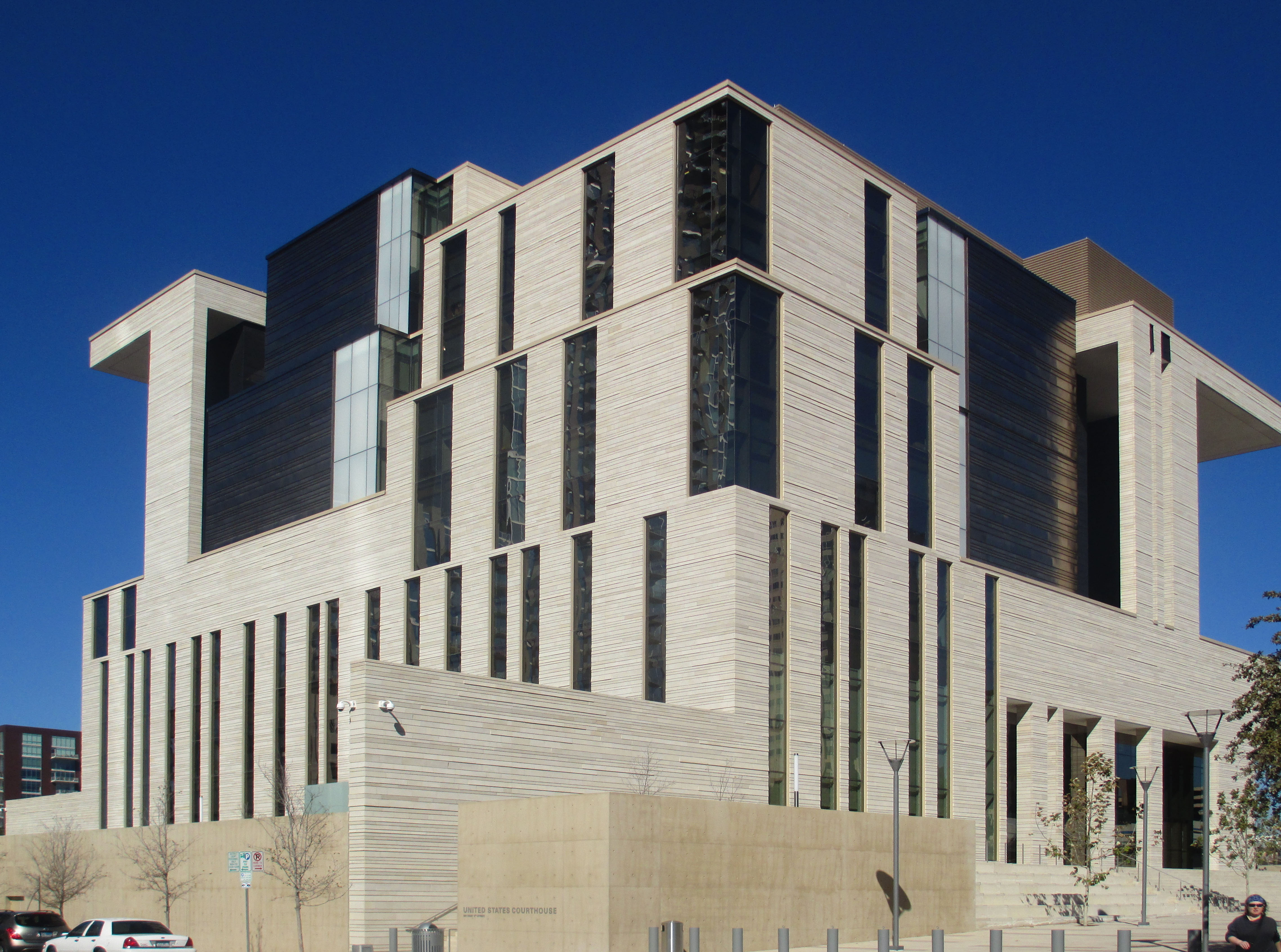 Canon camera Federal courthouse, Austin, TX 1-18-2013